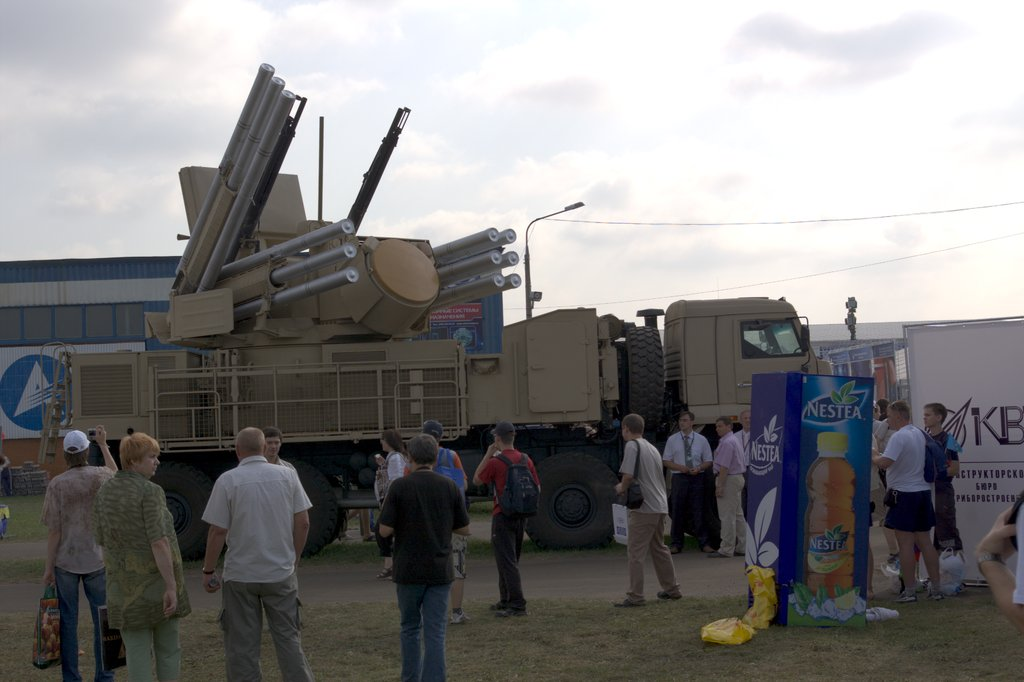 Anti-air weapon system 96K6 "Pantsir'-1" at the «MAKS 2007».aa